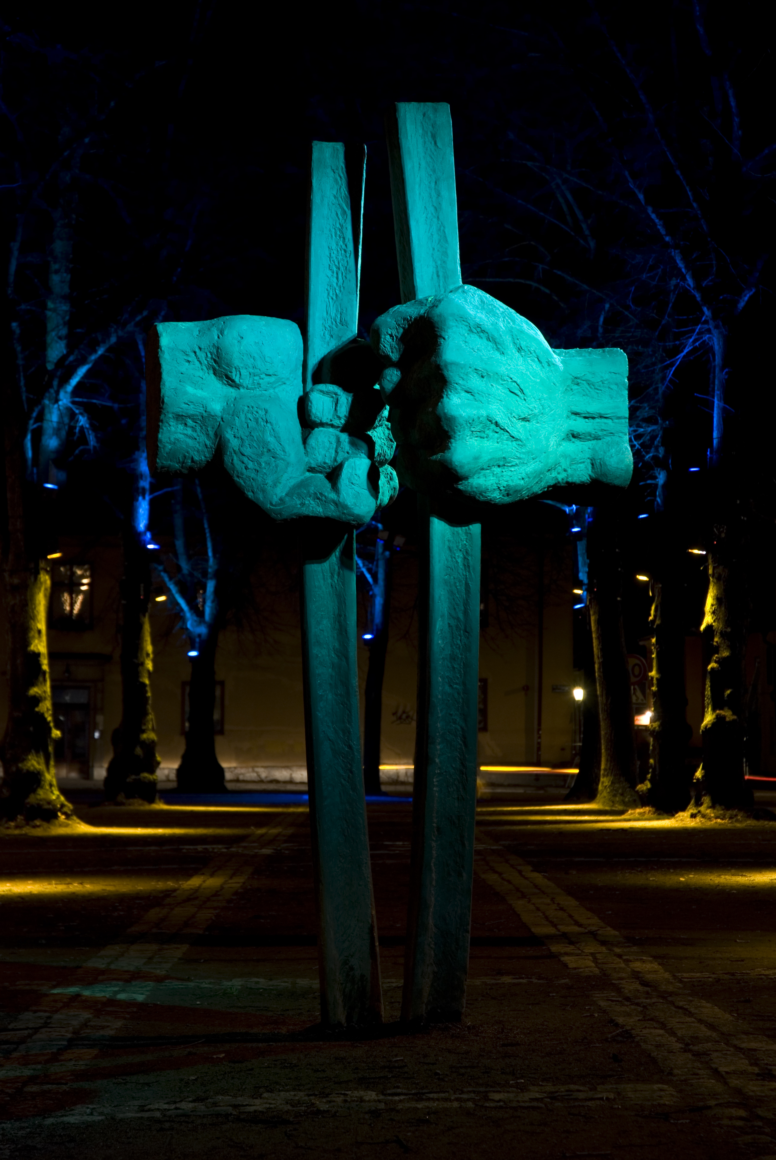 A monument to Martin Luther King in Uppsala, Schweden, during the light festival Allt ljus på Uppsala in november 2008. The composition (monument + lighting) was called Frihetens ljus, which rougly translates as The light of freedom.